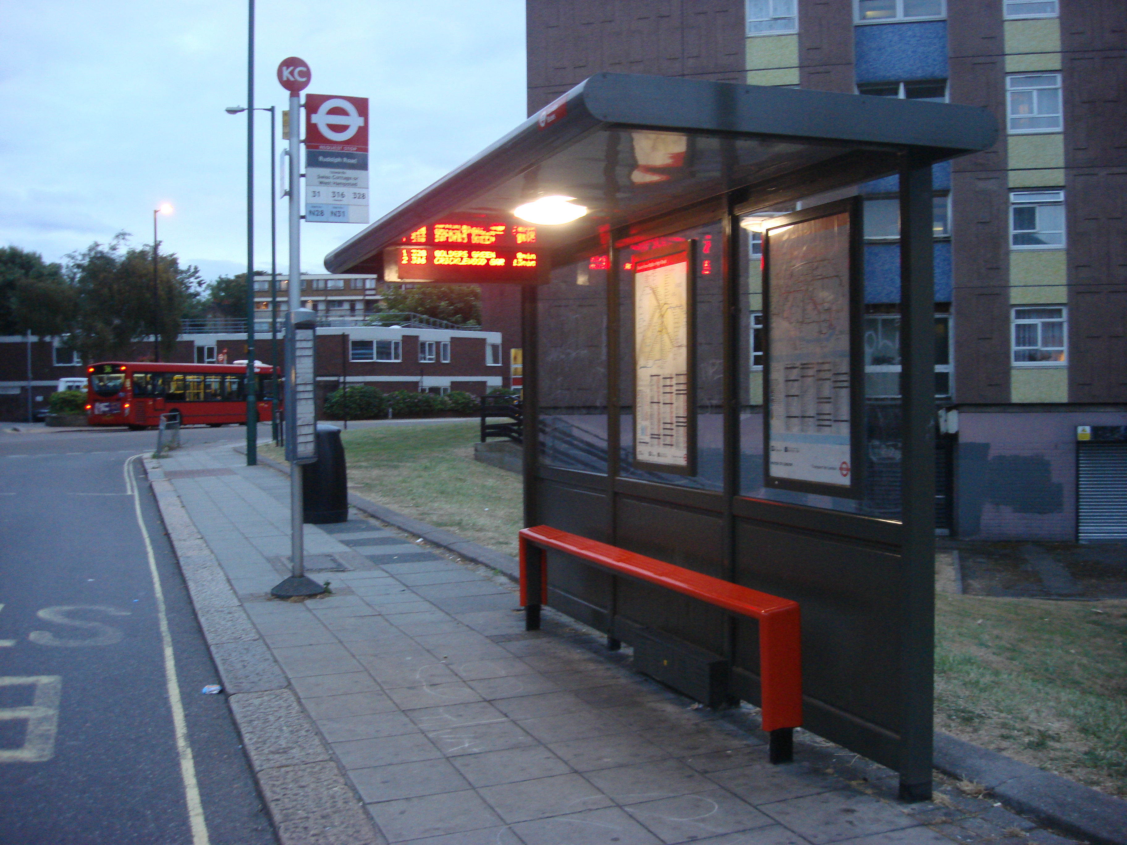 Rudolph Road bus stop KC.